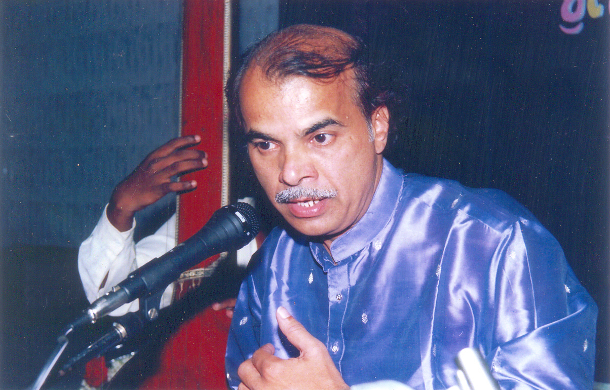 Shripad Hegde Hindustani Classical Vocalist performing at one of his concert at Bangalore Karnataka India.